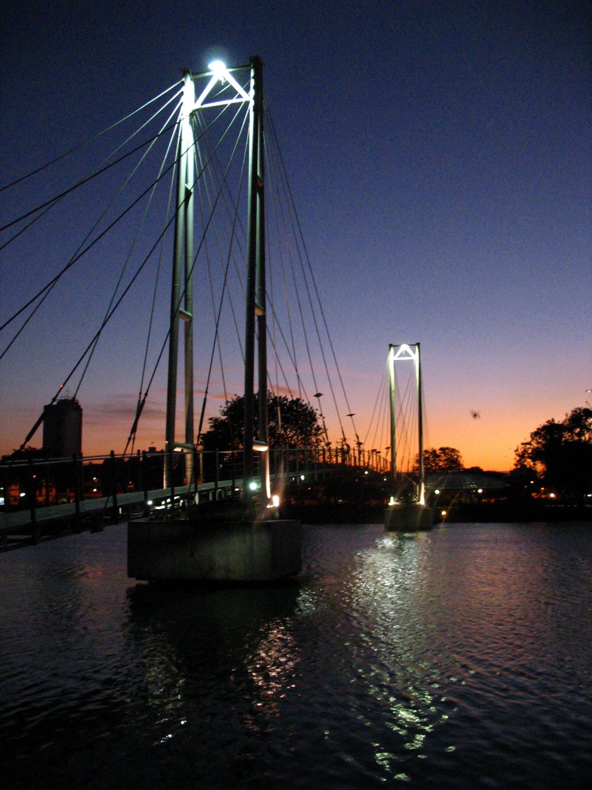 Image of the Beira Lake pedestrian footbridge, January 2009